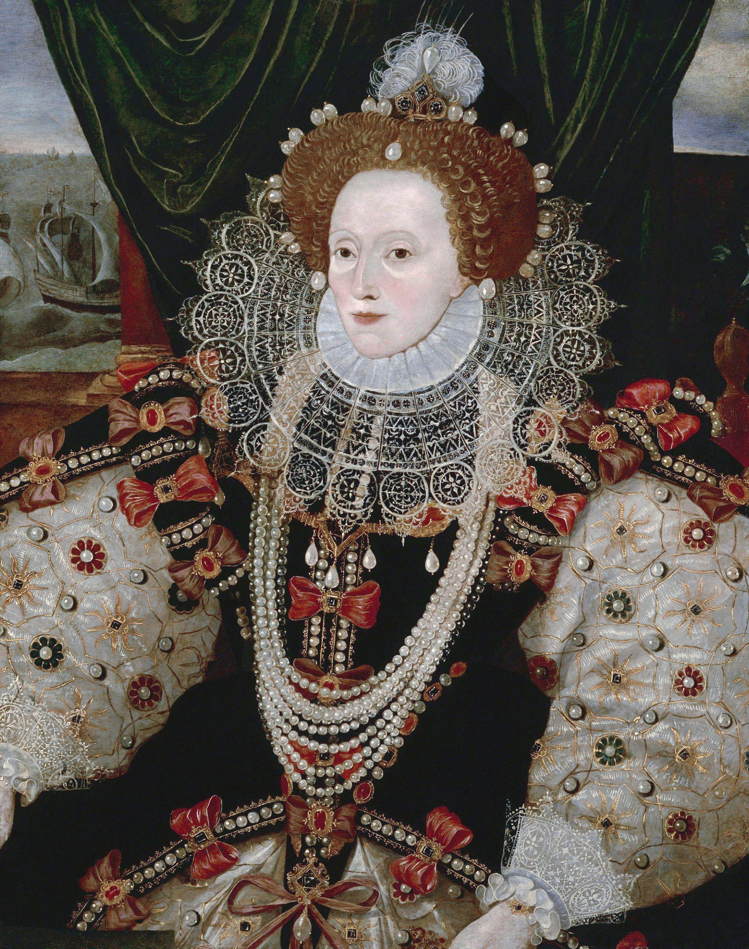 Elizabeth I of England, the Armada Portrait, oil on panel, 38 1/2 in. x 28 1/2 in. (978 mm x 724 mm), National Portrait Gallery. Cut down from a wider version of the Woburn Abbey painting. Other versions of the Armada portrait are by different artists. All images in this batch have been confirmed as author died before 1939 according to the official death date listed by the NPG.